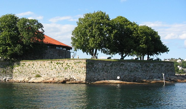 Christiansholm Fortress, a Norwegian fortress built to defend the city of Kristiansand